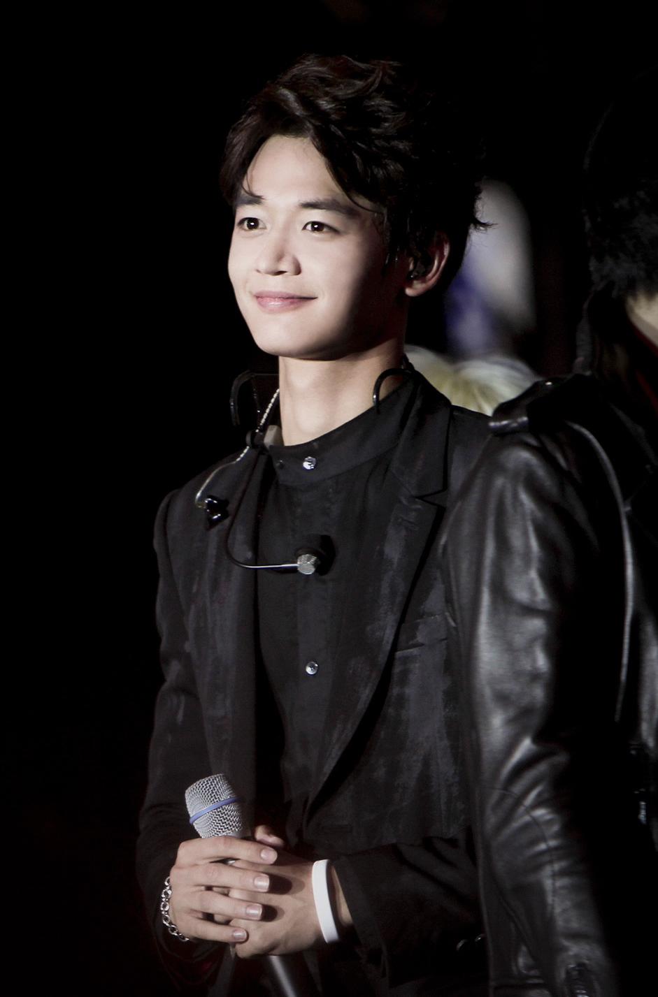 Minho at the Gangnam Hallyu Festival on October 6, 2013